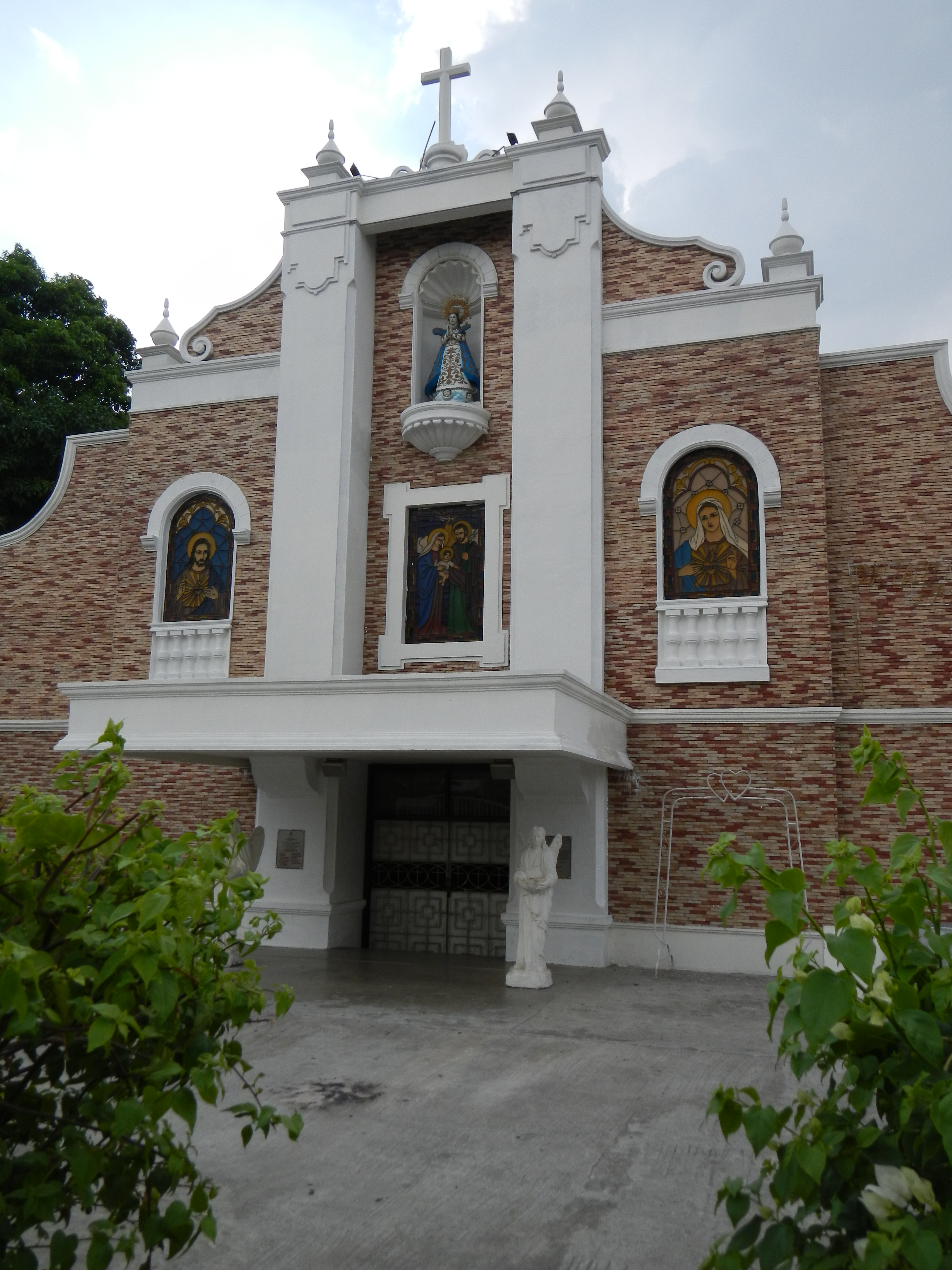 (F-1934) Our Lady of Remedies Parish San Manuel 2301 Tarlac, Philippines Titular: Our Lady of Remedies, Parish Priest: Father Christopher Lozano Vicariate of St. Rose of Lima Vicar Forane: Msgr. Alberto Bruno [1] [2]Roman Catholic Diocese of Tarlac [3][4]Most Rev. Florentino F. Cinense, D.D., PhD, STL.[5] [6] Read more:[7] [8]San Manuel, Tarlac[9] is a fourth class municipality in the province of Tarlac, Philippines. According to the 2010 census, it had a population of 24,289 people. When the prosperous barrio of San Jose was separated from the town of Moncada to be proclaimed a sister municipality in 1909, the inhabitants were jubilant and graceful. They renamed it "San Manuel" in honor of their benefactor, the late Don Manuel de Leon, who lost no time in sponsoring its creation. Land Area: 42.10 km² ZIP Code: 2309 Coordinates: 15°49'44"N 120°35'45"E[10] [11] This place is situated in Tarlac, Region 3, Philippines, its geographical coordinates are 15° 29' 25" North, 120° 39' 54" East and its original name (with diacritics) is San Manuel.[12]SAN MANUEL: BORDER TOWN OF A BOOMING ECONOMY